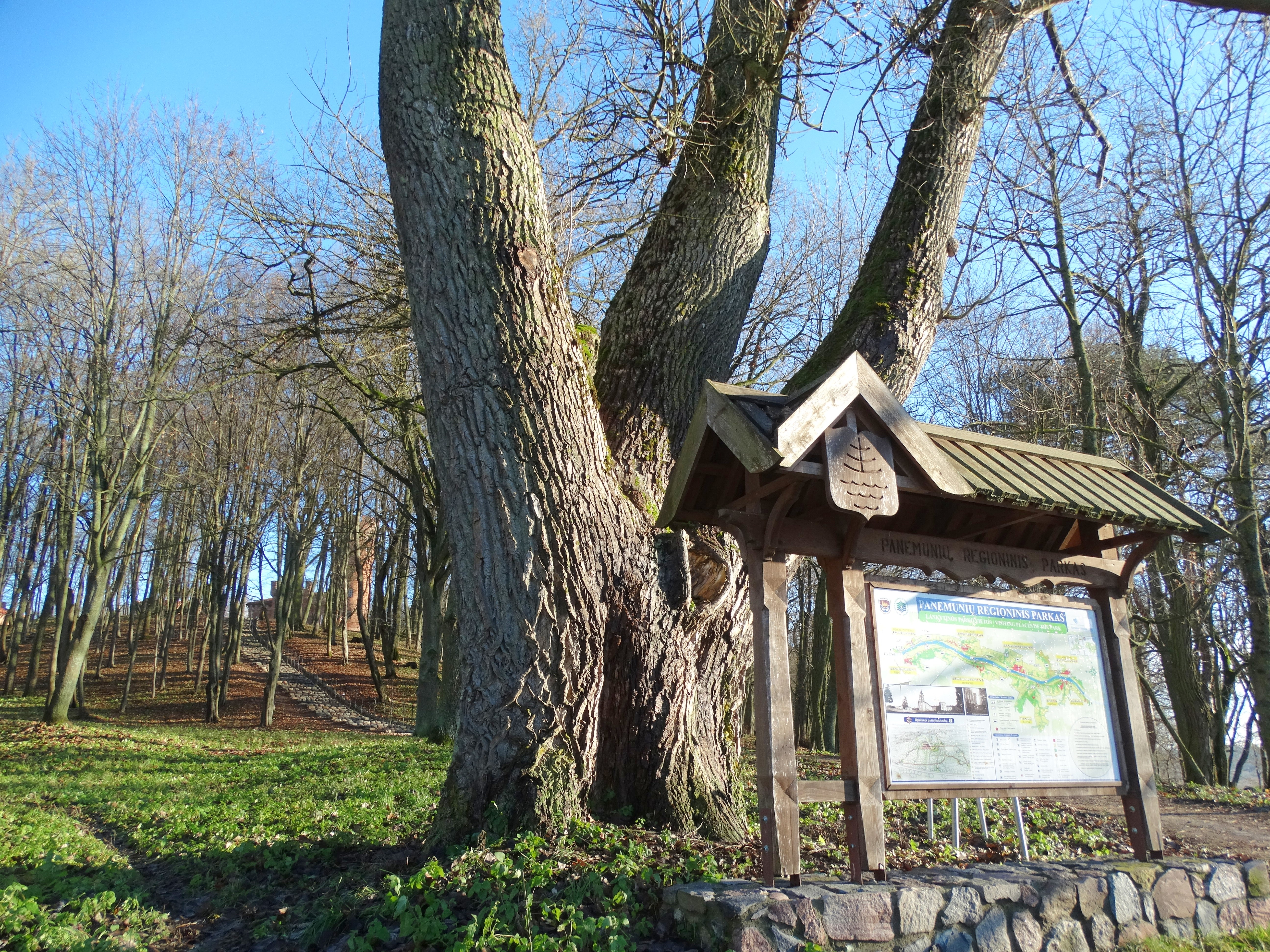 Populus x canescens, Raudonė, Jurbarkas district, Lithuania